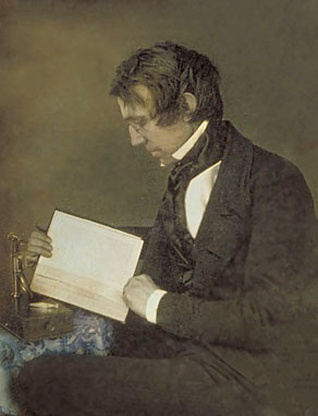 Daguerreotype of the American botanist John Torrey. Image courtesy of the Harvard University Library.